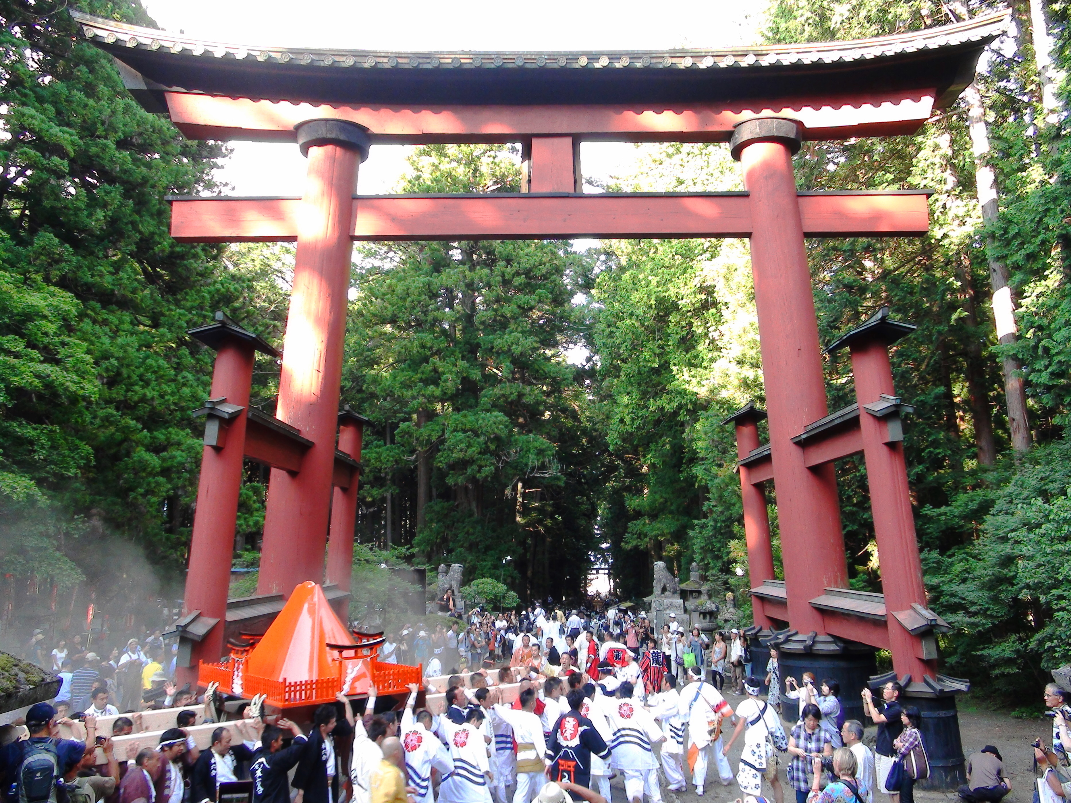 Departure of Oyama mikoshi.Yoshida Fire Festival